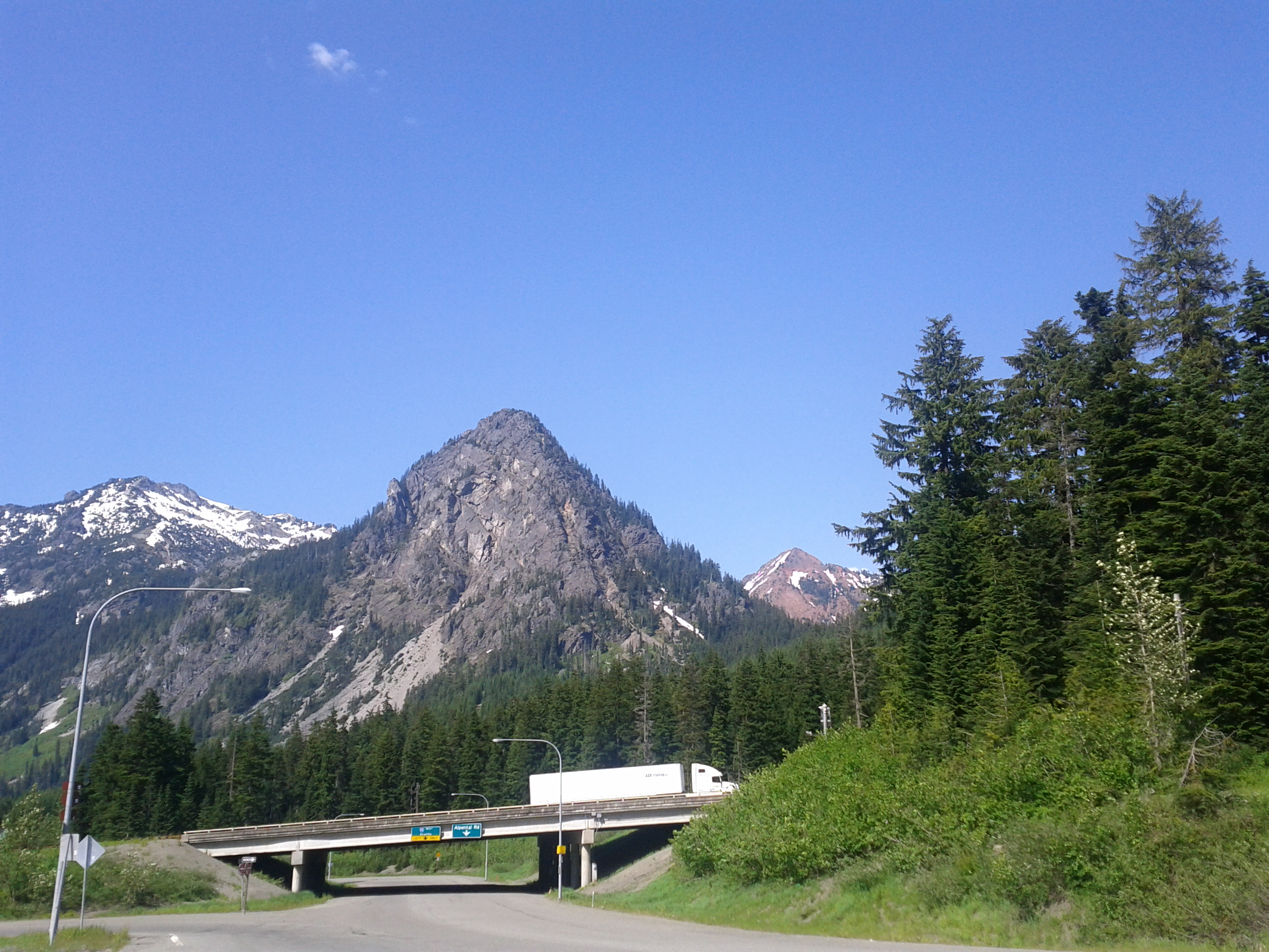 Washington State Route 906 at it's western terminus at Interstate 90 in Snoqualmie Pass, Washington.